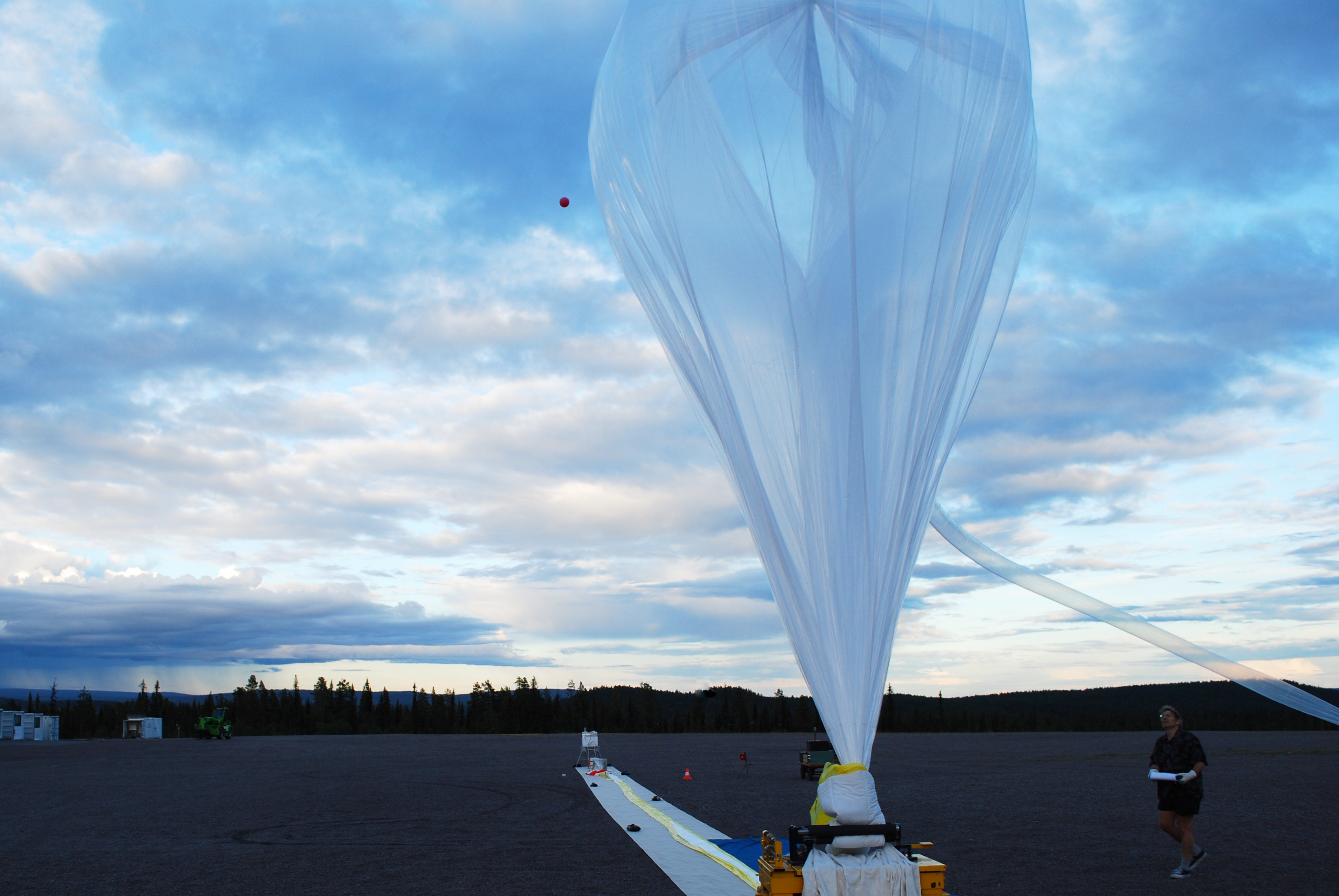 The fourth BARREL balloon of this campaign sits on the launch pad shortly before it launched on Aug. 21, 2016. The BARREL team is at Esrange Space Center near Kiruna, Sweden, launching a series of six scientific payloads on miniature scientific balloons. The NASA-funded BARREL – which stands for Balloon Array for Radiation-belt Relativistic Electron Losses – primarily measures X-rays in Earth’s atmosphere near the North and South Poles. These X-rays are produced by electrons raining down into the atmosphere from two giant swaths of radiation that surround Earth, called the Van Allen belts. Learning about the radiation near Earth helps us to better protect our satellites. Several of the BARREL balloons also carry instruments built by undergraduate students to measure the total electron content of Earth’s ionosphere, as well as the low-frequency electromagnetic waves that help to scatter electrons into Earth’s atmosphere. Though about 90 feet in diameter, the BARREL balloons are much smaller than standard football stadium-sized scientific balloons. This is the fourth campaign for the BARREL mission. BARREL is led by Dartmouth College in Hanover, New Hampshire. The undergraduate student instrument team is led by the University of Houston and funded by the Undergraduate Student Instrument Project out of NASA’s Wallops Flight Facility. For more information on NASA’s scientific balloon program, visit: Credit: NASA/University of Houston/Michael Greer NASA image use policy. NASA Goddard Space Flight Center enables NASA’s mission through four scientific endeavors: Earth Science, Heliophysics, Solar System Exploration, and Astrophysics. Goddard plays a leading role in NASA’s accomplishments by contributing compelling scientific knowledge to advance the Agency’s mission. Follow us on Twitter Like us on Facebook Find us on Instagram